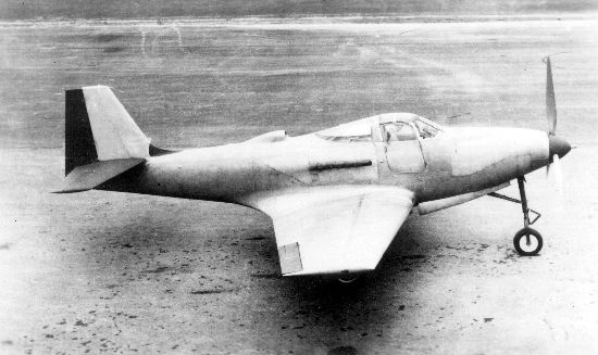 Experimental american aircraft Bell XP-39E